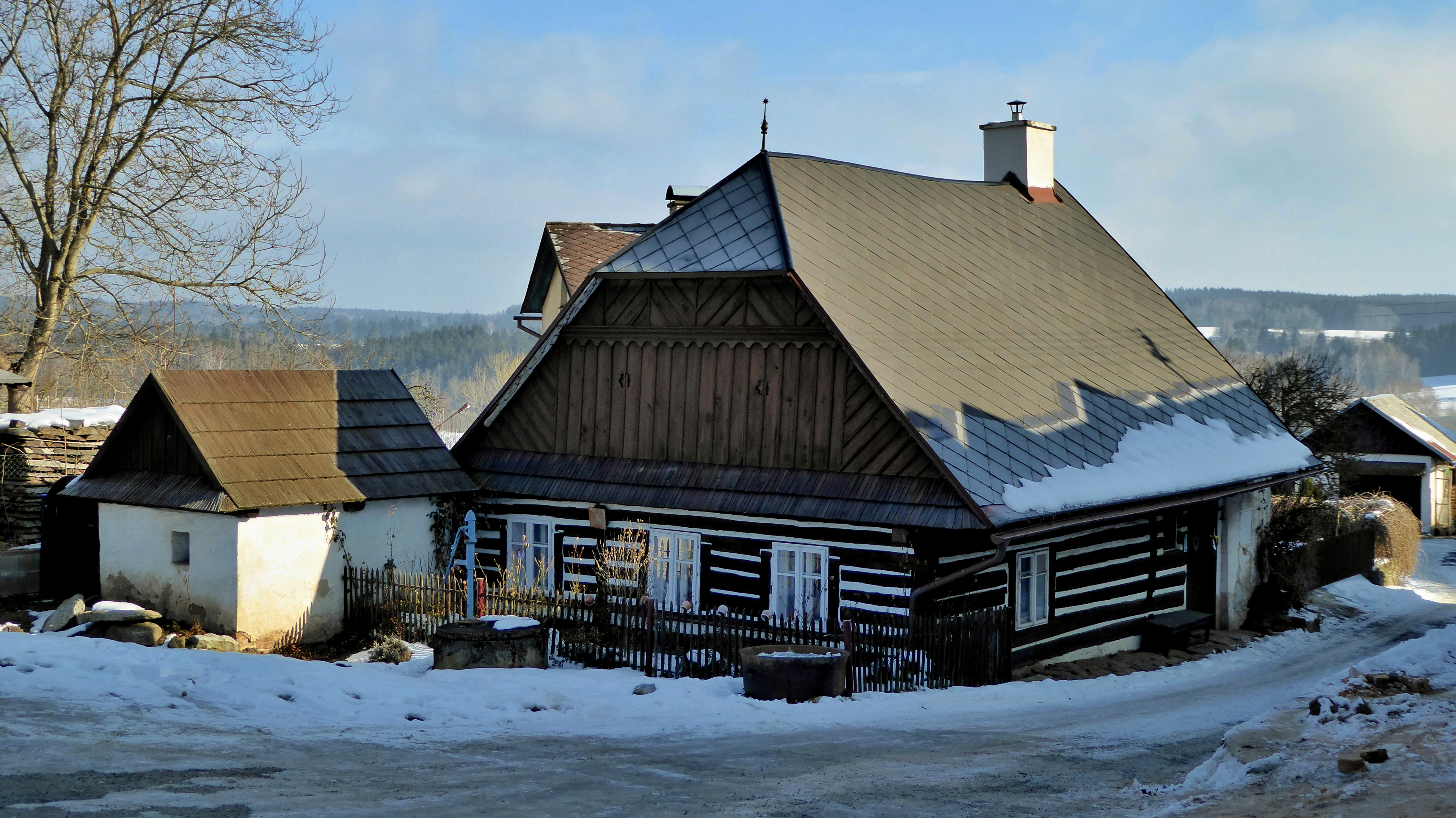 "Dřevíkovská" village green, timbered cottage (No. 47), on right originally the so-called Jewish Lane (approximately in 18th and 19th centuries), today a cultural monument. After a major fire in 1847, the original wooden buildings was replaced with brickwork building. "Dřevíkovská" village green is information point No. 10 on the Homeland trail the Region of Chrudimka River. "Dřevíkov" is settlement locality of the type of small hamlet and the name of the cadastral area with an area of 226.58 ha with a range of approximately 534 to 579 meters above sea level in the landscape area of the Iron Mountains, within the administrative is part municipality of Vysočina in the district of Chrudim belonging to the Pardubice Region in the territory of the Czech Republic. Photo location: Czechia, Pardubice Region, municipality Vysočina, hamlet of "Dřevíkov", "Stružinecká" knoll hill.